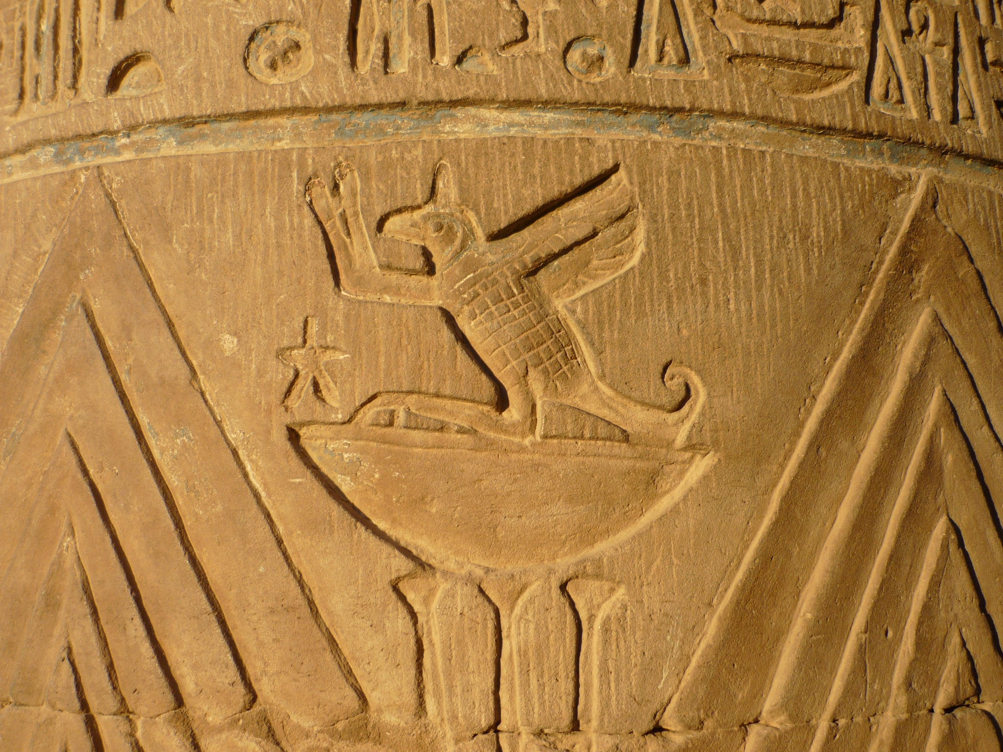 Wall relief of a Rekhyt-bird, Kom Ombo Temple, Egypt